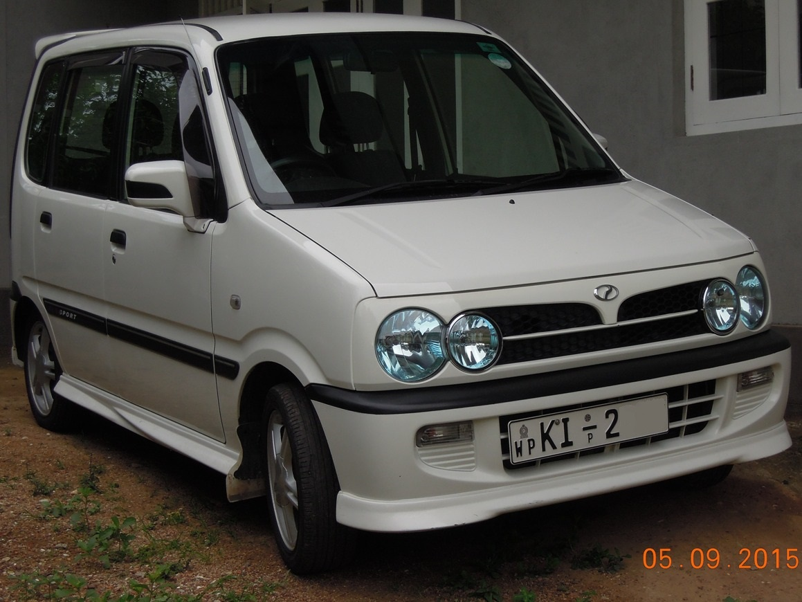 Perodua Kenari Aero Sport exported to Sri Lanka.